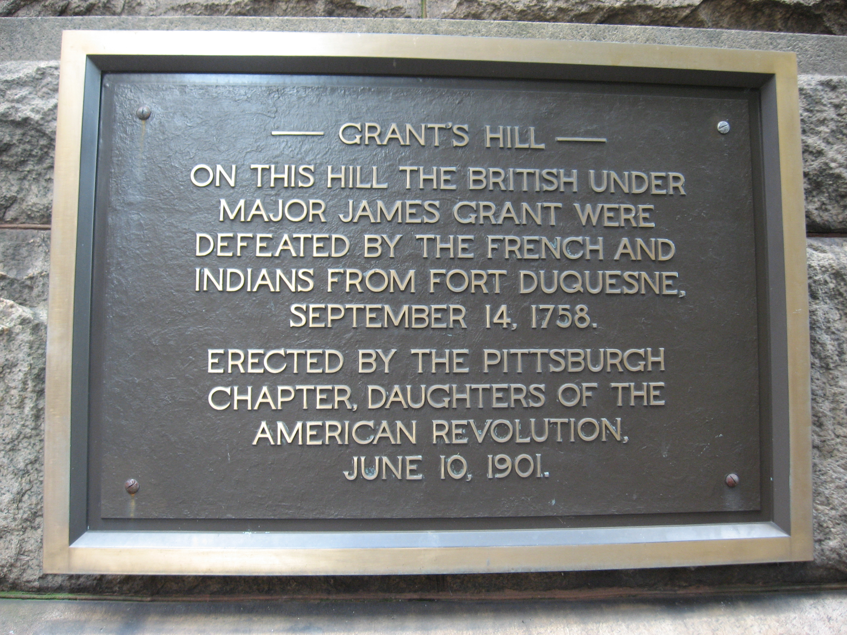 Marker commemorating the Battle of Fort Duquesne at the Allegheny County Courthouse in Pittsburgh 40°26′18.56″N 79°59′46.17″W / 40.4384889°N 79.9961583°W